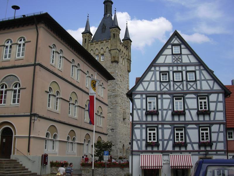 Bad Wimpfen, Germany, town hall and "Blue Tower" in the background